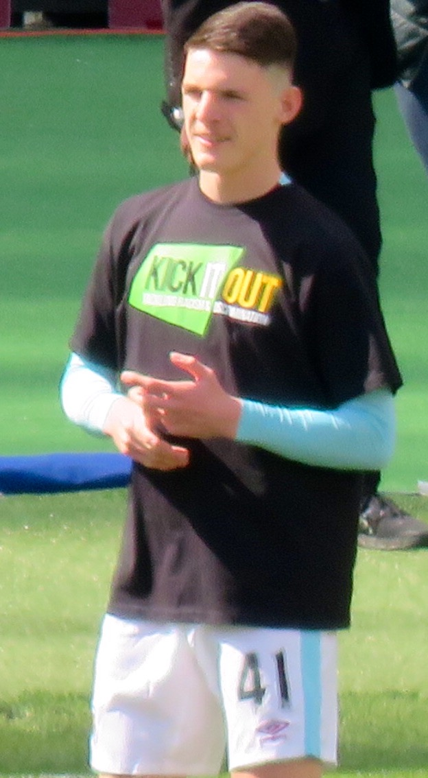 West Ham United player, Declan Rice, warming-up before West Ham's game against Everton in the Premier League at the London Stadium.